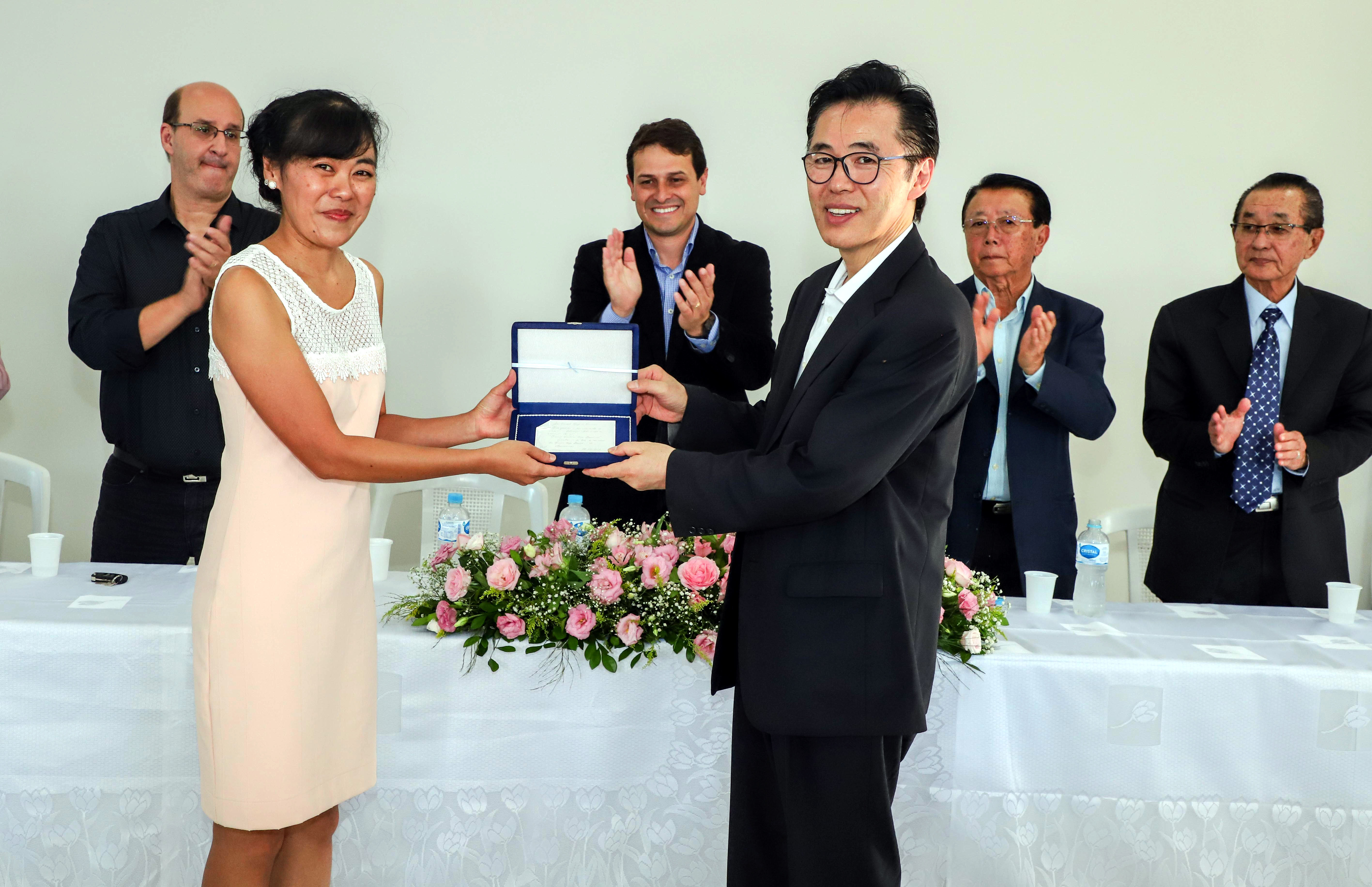 Opening of a multipurpose hall at the Japanese-Brazilian School in Apucarana, State of Paraná, in 2019